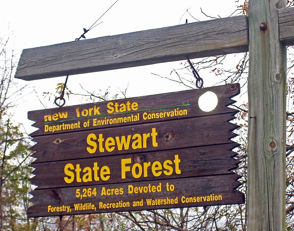 Stewart State Forest sign photographed by Daniel Case 2006-10-27